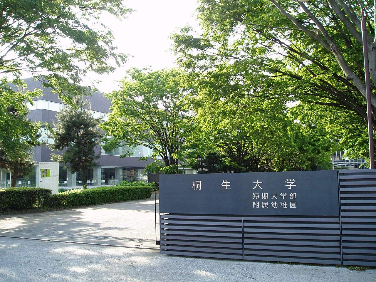 The main gate of Kiryu University located in Midori, Gunma Prefecture, Japan.